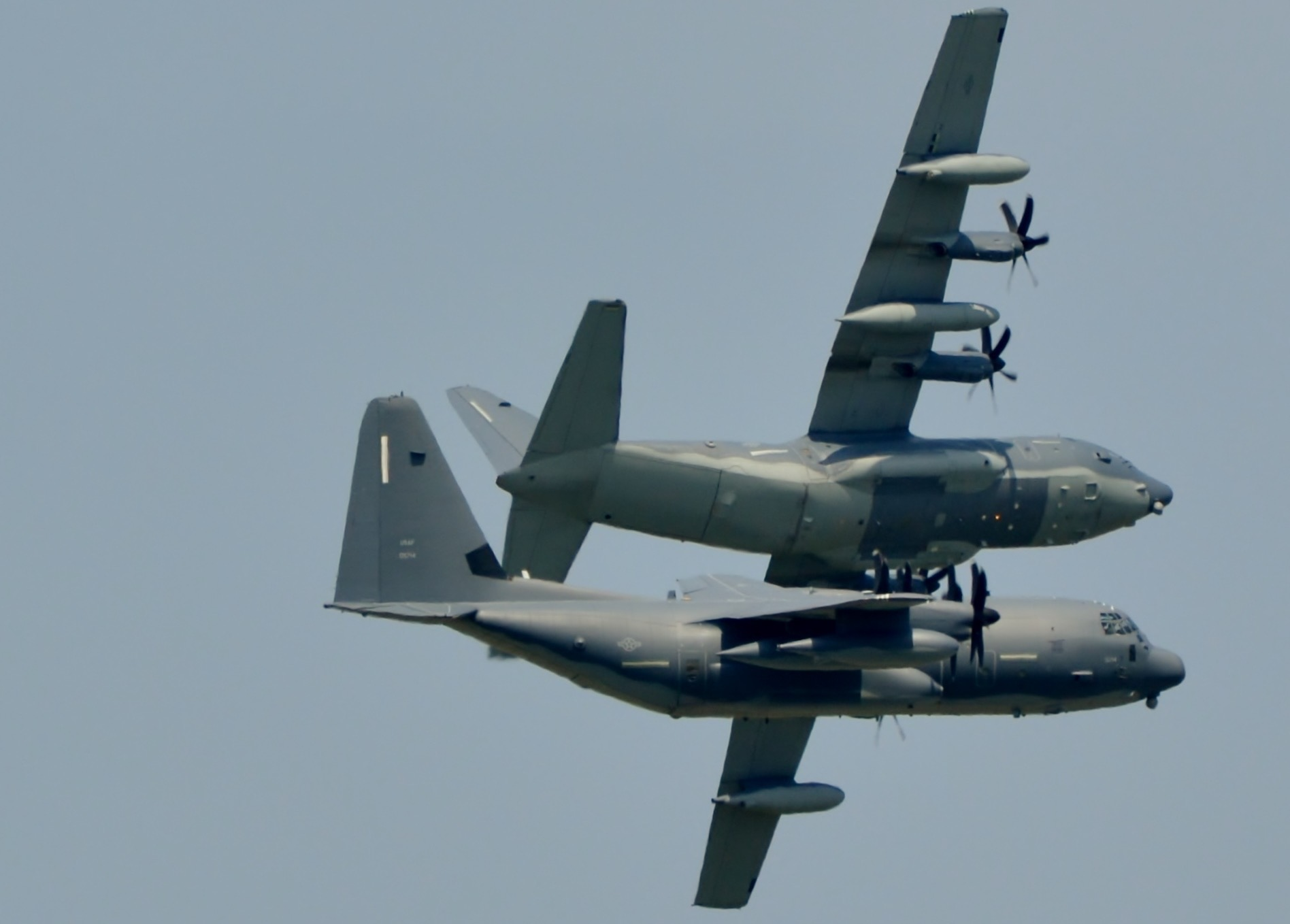 The last flight of the Jakals and first flight of the Stray Geese MC-130J